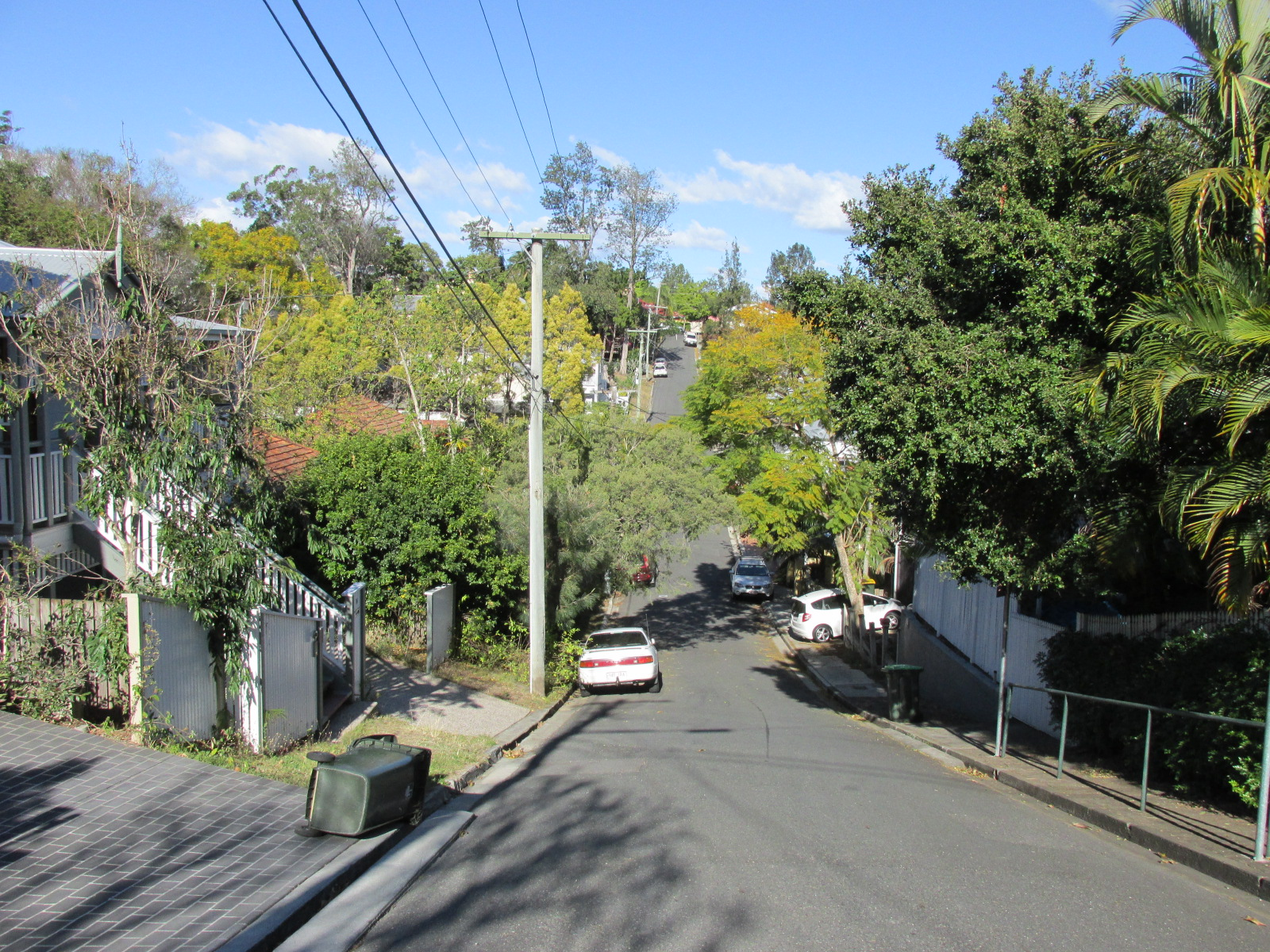 Looking down Kent Street in Red Hill, Queensland.